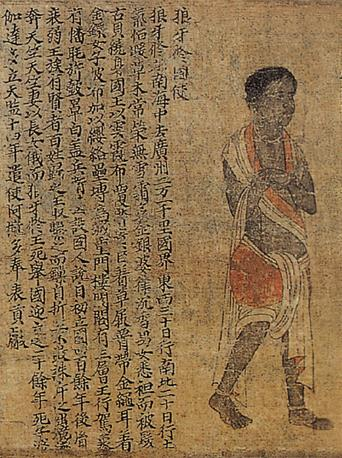 Emissary from Langkasuka, part of the Portraits of Periodical Offering of Liang by Xiao Yi from the 6th century.